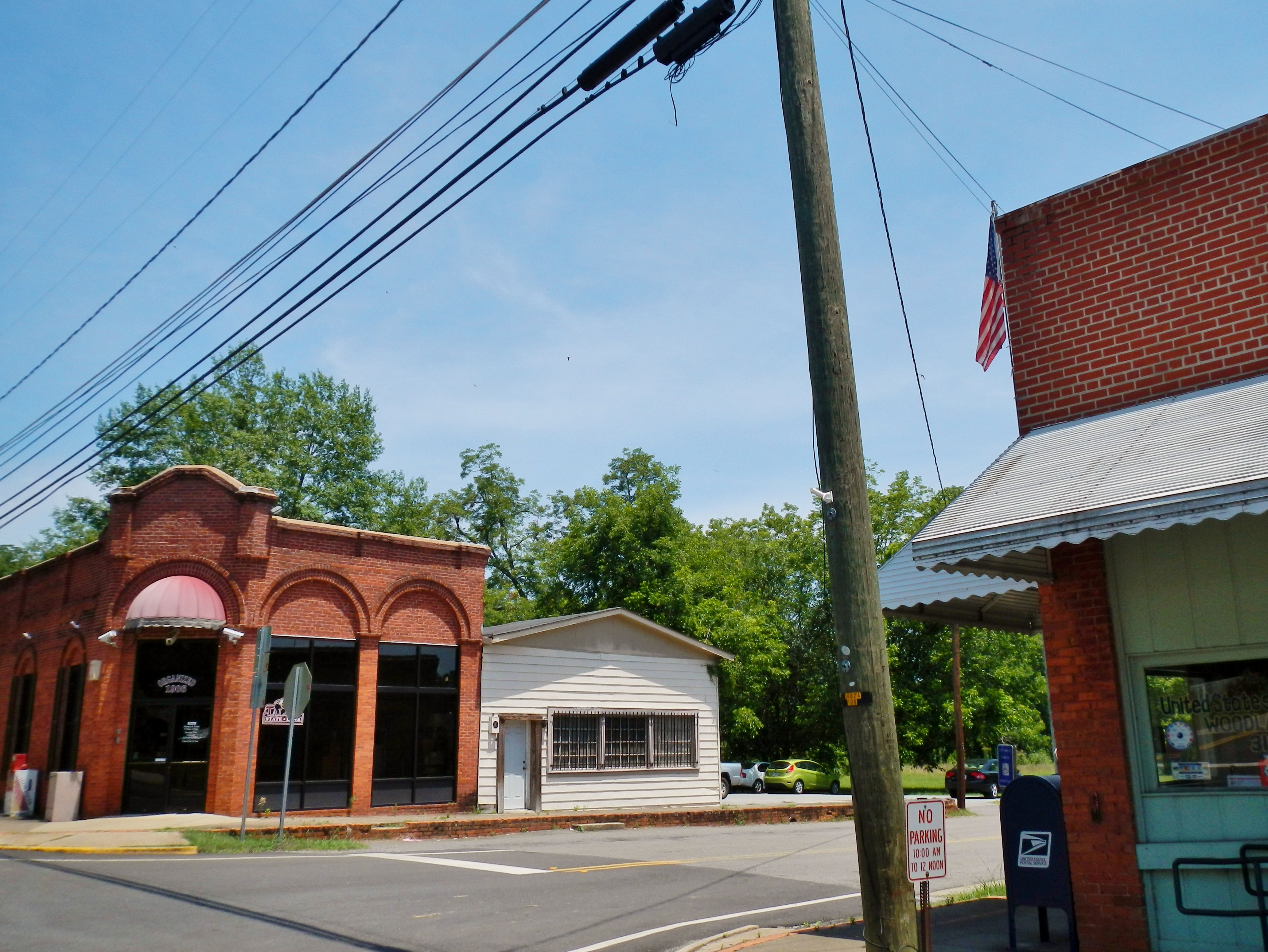 This is a photograph of Woodland, GA.